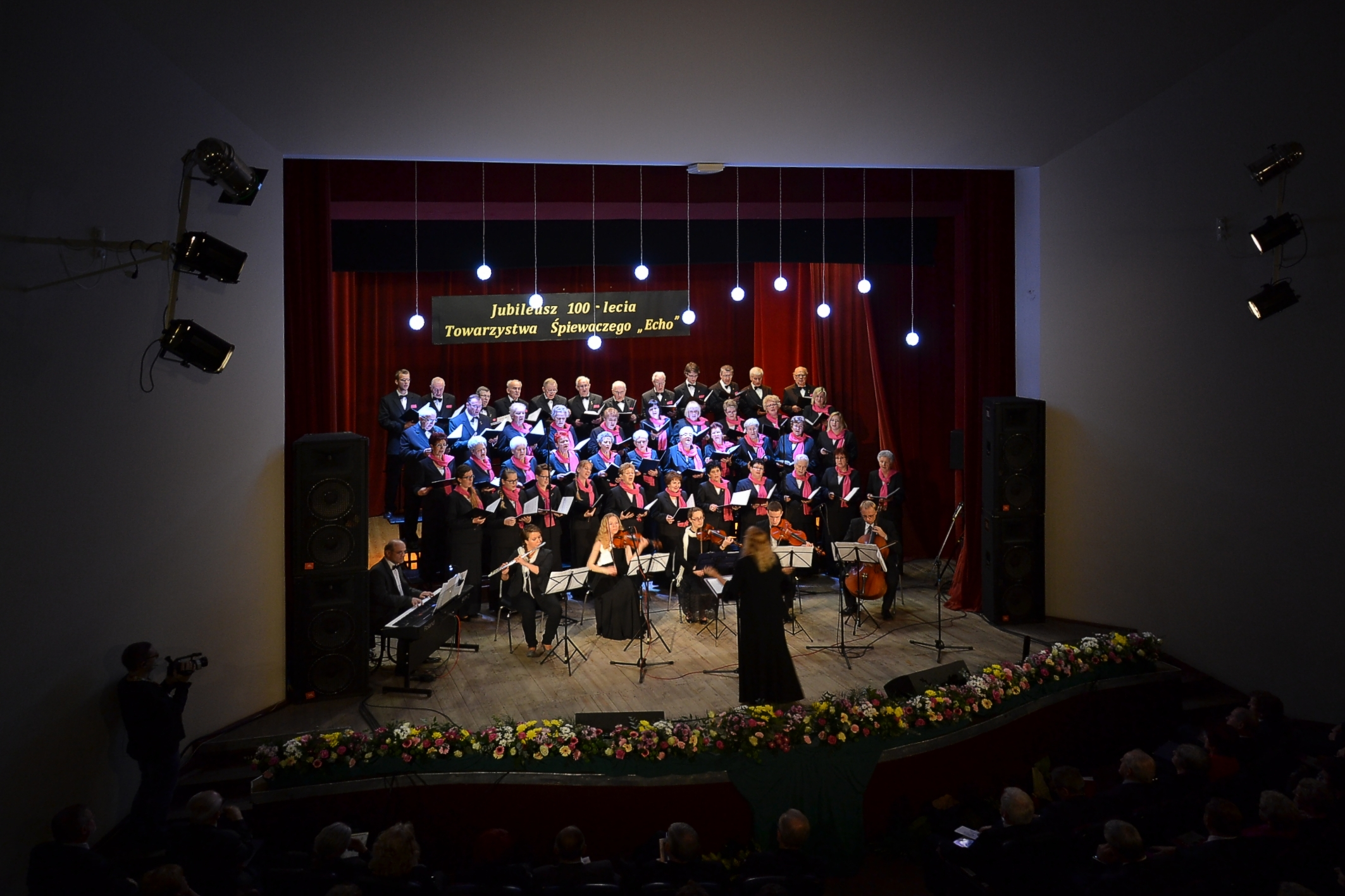 Polish Choir "Echo" from Łaziska Górne (Upper Silesia), during a concert on the occasion of the 100th anniversary of the choir.